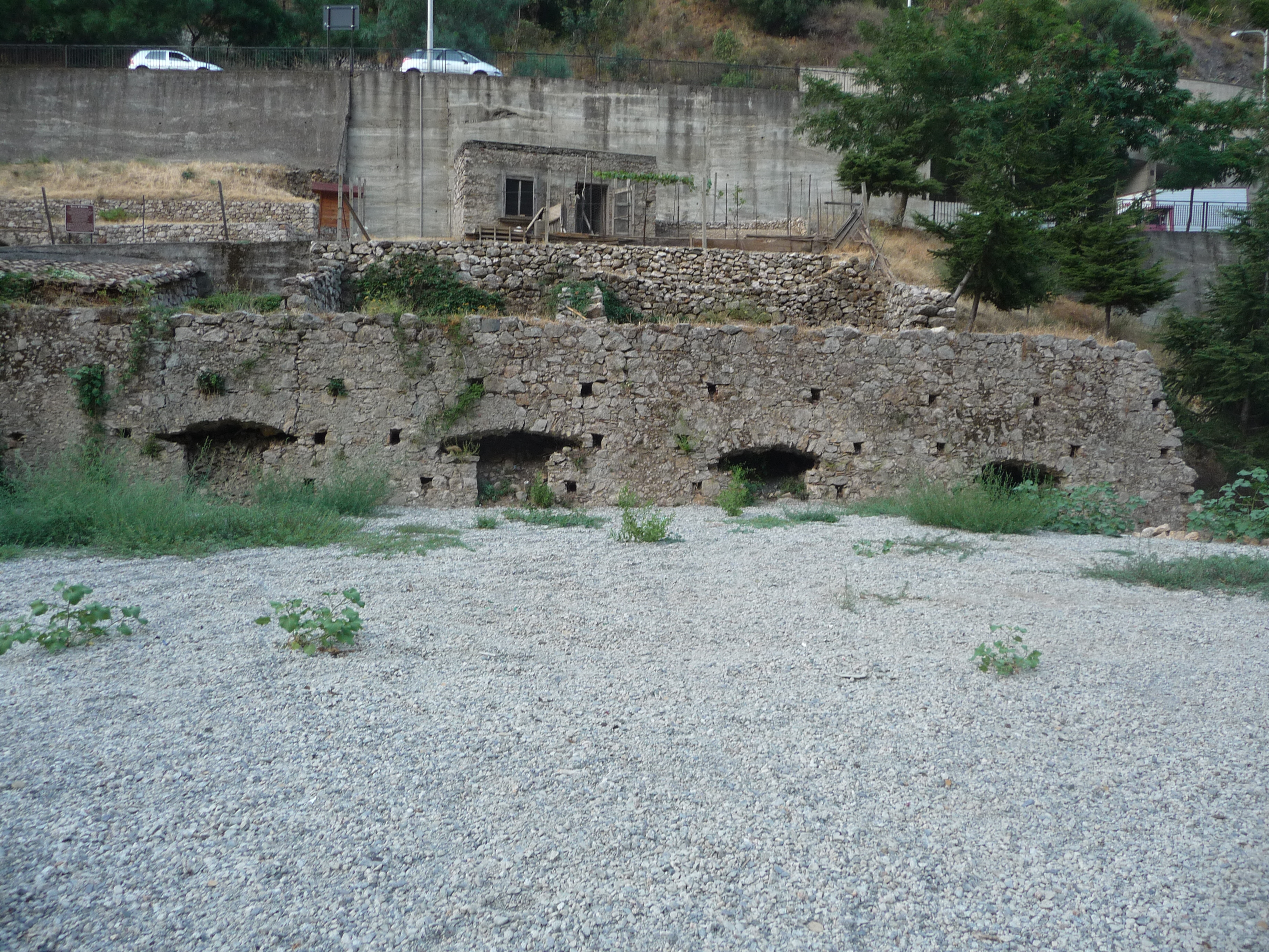 gate of mines at Pazzano